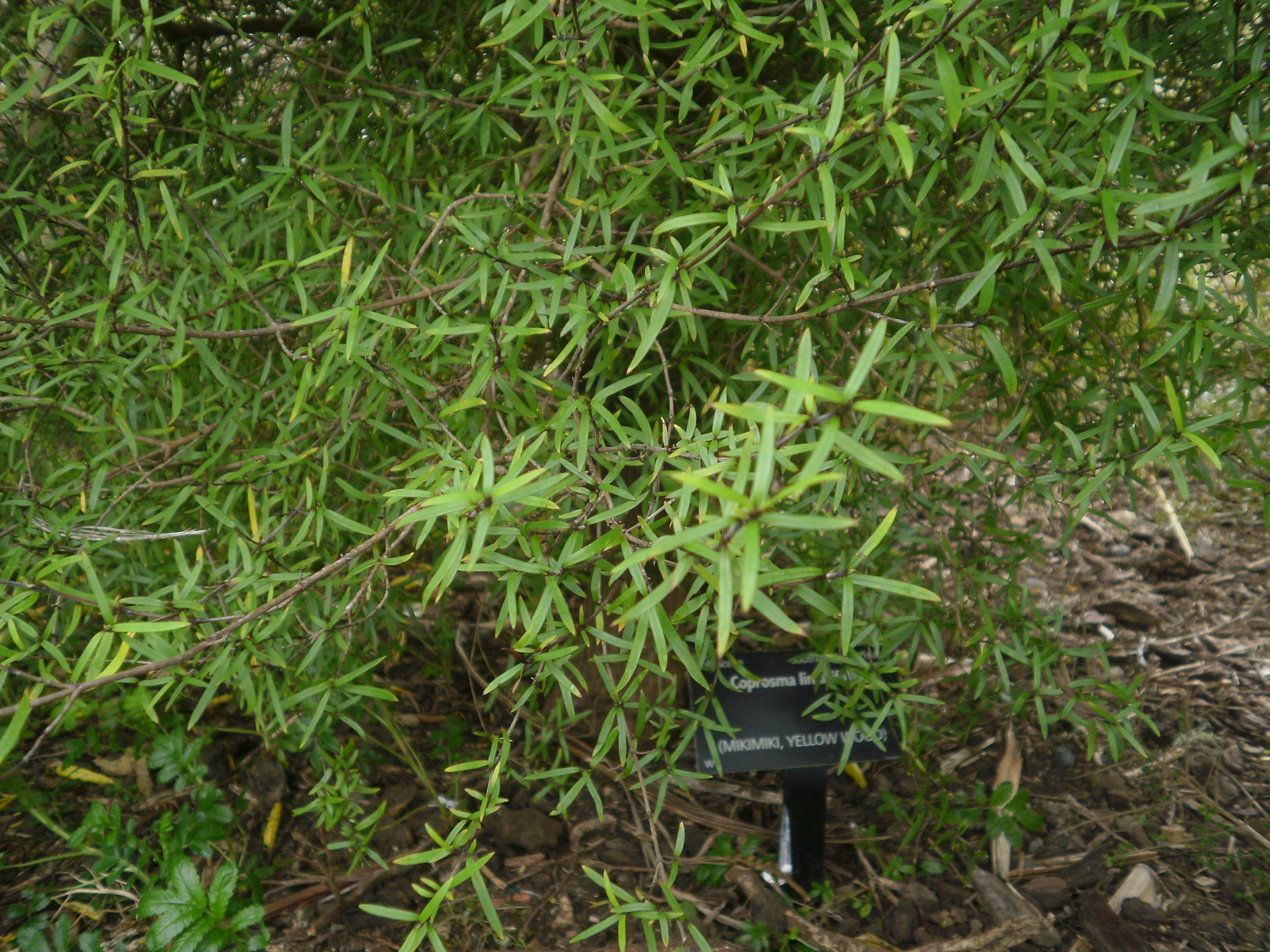 Coprosma linariifolia, at Otari-Wilton's Bush, Wellington, New Zealand.